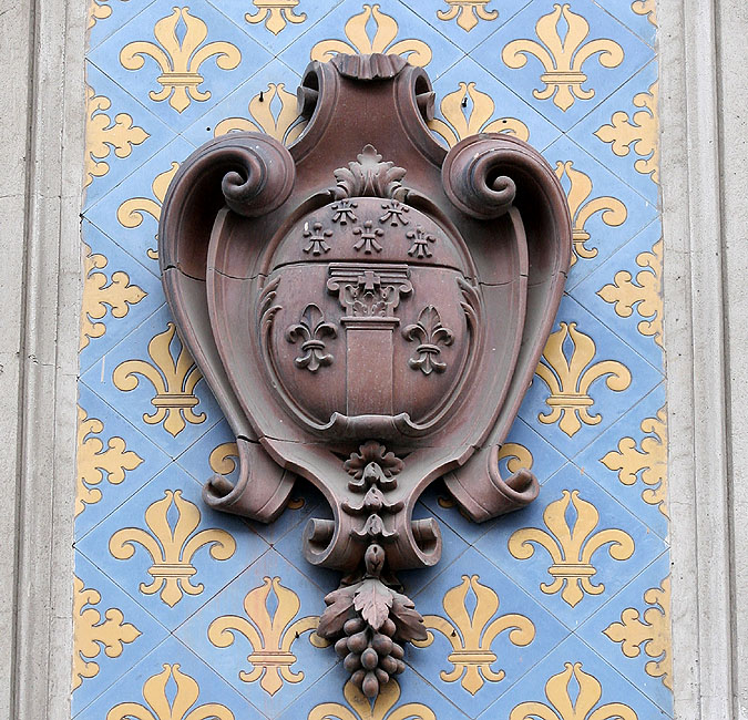 Coat of Arms of Benois family